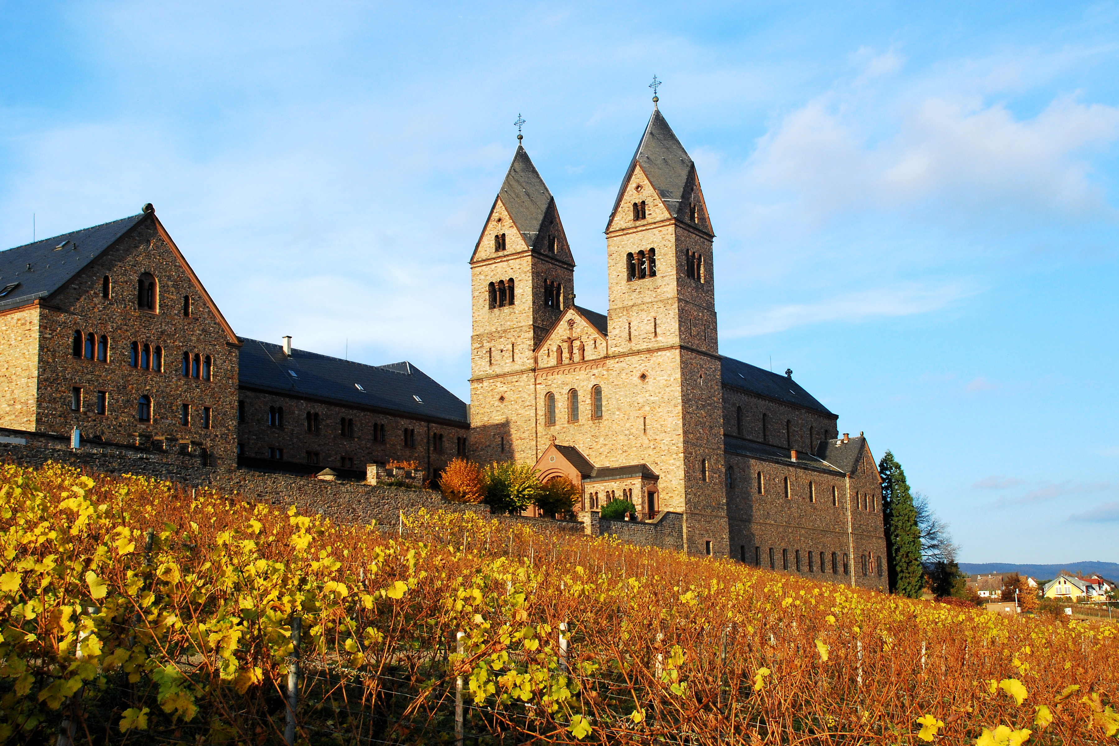 Cloister St. Hildegard in Eibingen, Germany.